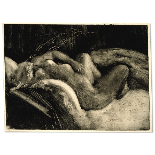 A monotype "Sleep" by Edgar Degas, french painter (1834-1917)